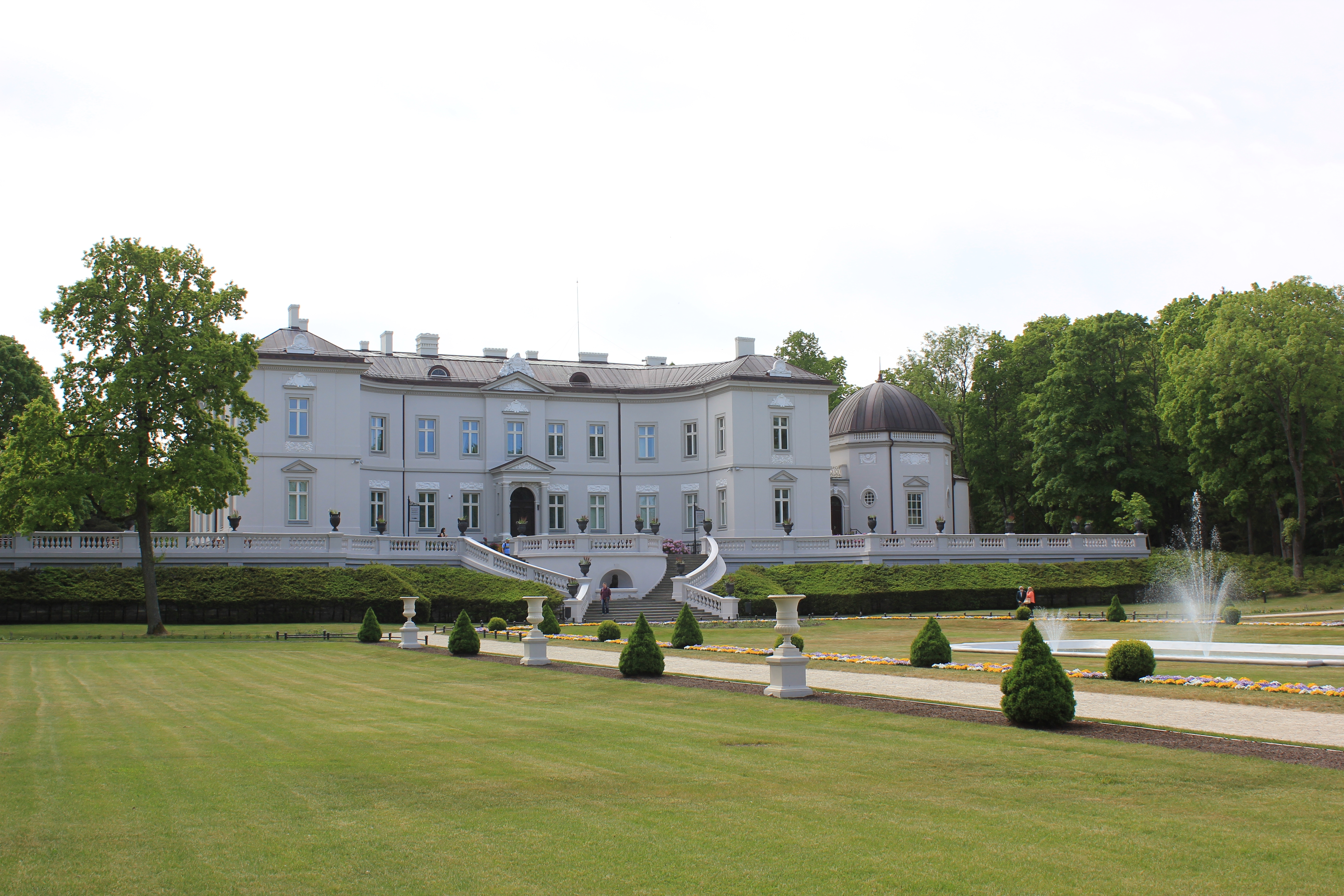 Palanga - Tyszkiewicz palace